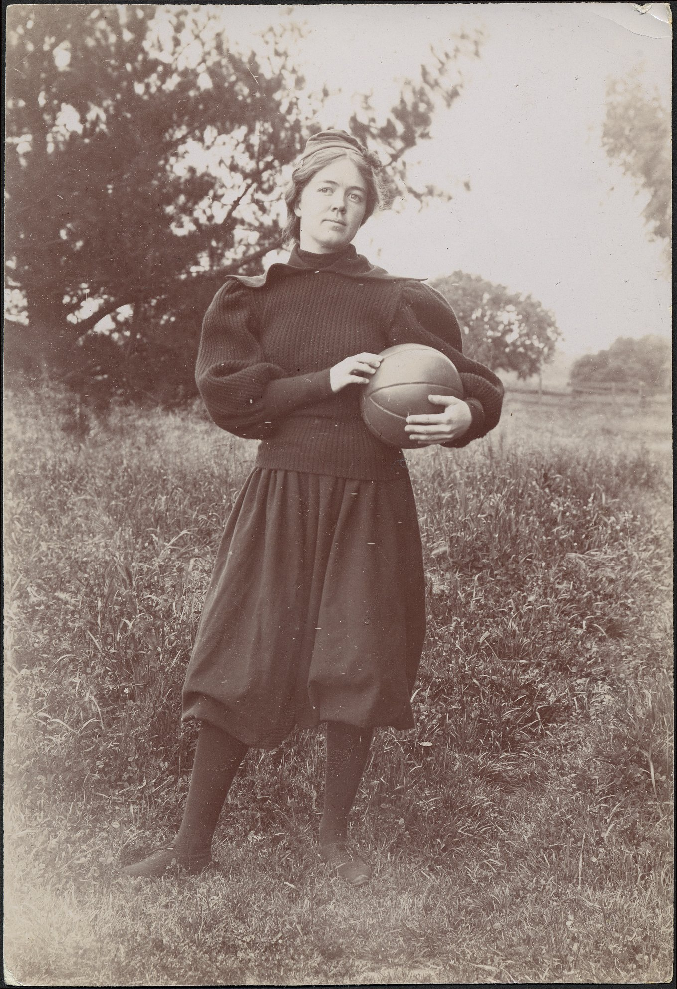 Photograph of Agnes Morley (Class of 1900), member of Stanford University women's basketball team.